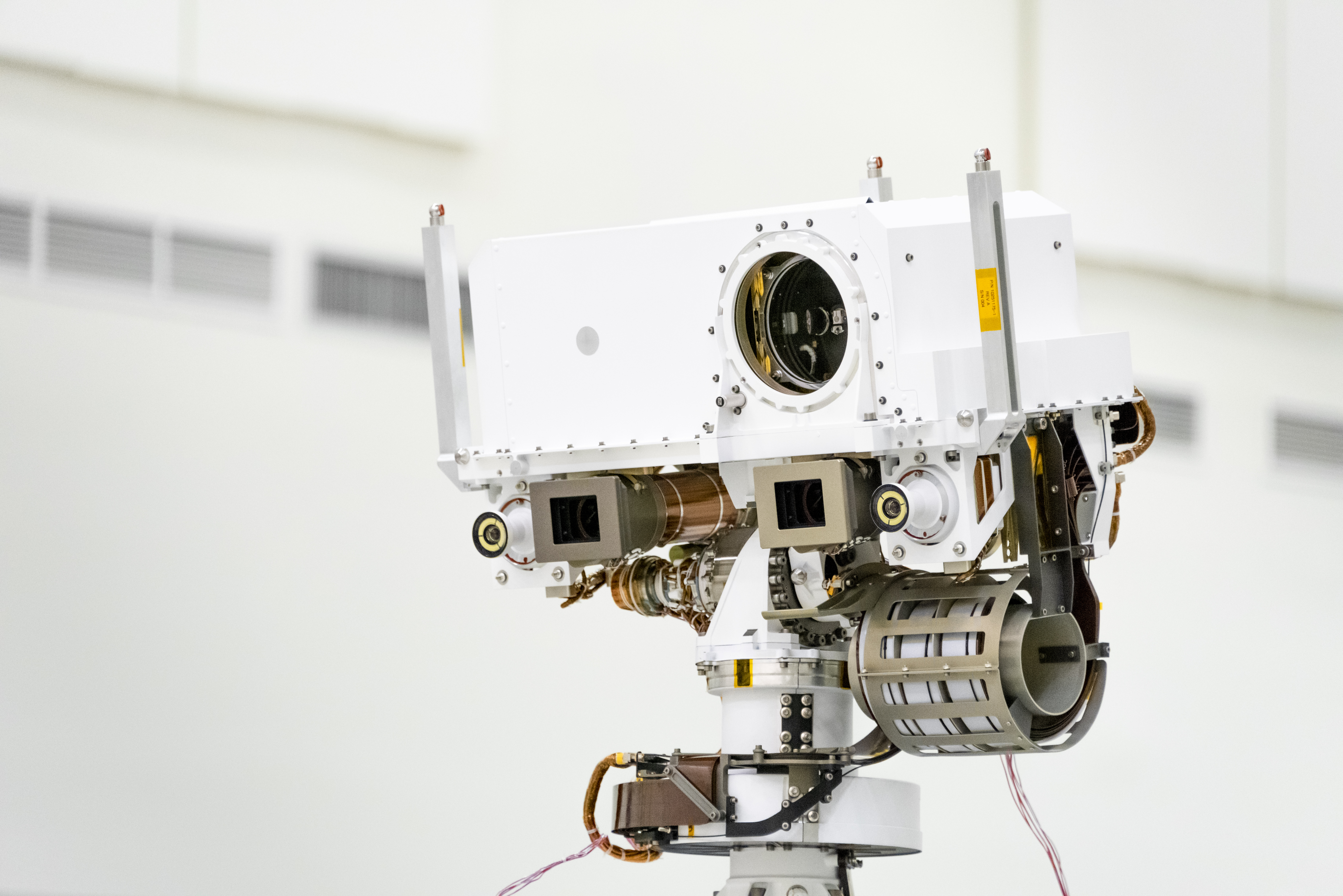 This image, taken in the Spacecraft Assembly Facility's High Bay 1 at the Jet Propulsion Laboratory in Pasadena, California, on July 23, 2019, shows a close-up of the head of Mars 2020's remote sensing mast. The mast head contains the SuperCam instrument (its lens is in the large circular opening). In the gray boxes beneath mast head are the two Mastcam-Z imagers. On the exterior sides of those imagers are the rover's two navigation cameras.